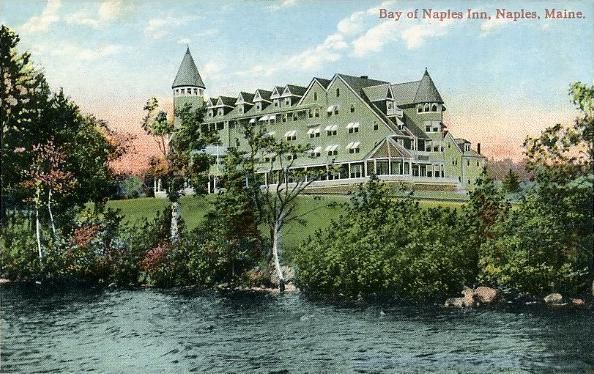 Bay of Naples Inn, Naples, ME; from a 1913 postcard. Designed by John Calvin Stevens, the hotel opened in 1899. It was prosperous in the early years of the 20th century, but was torn down in 1964.